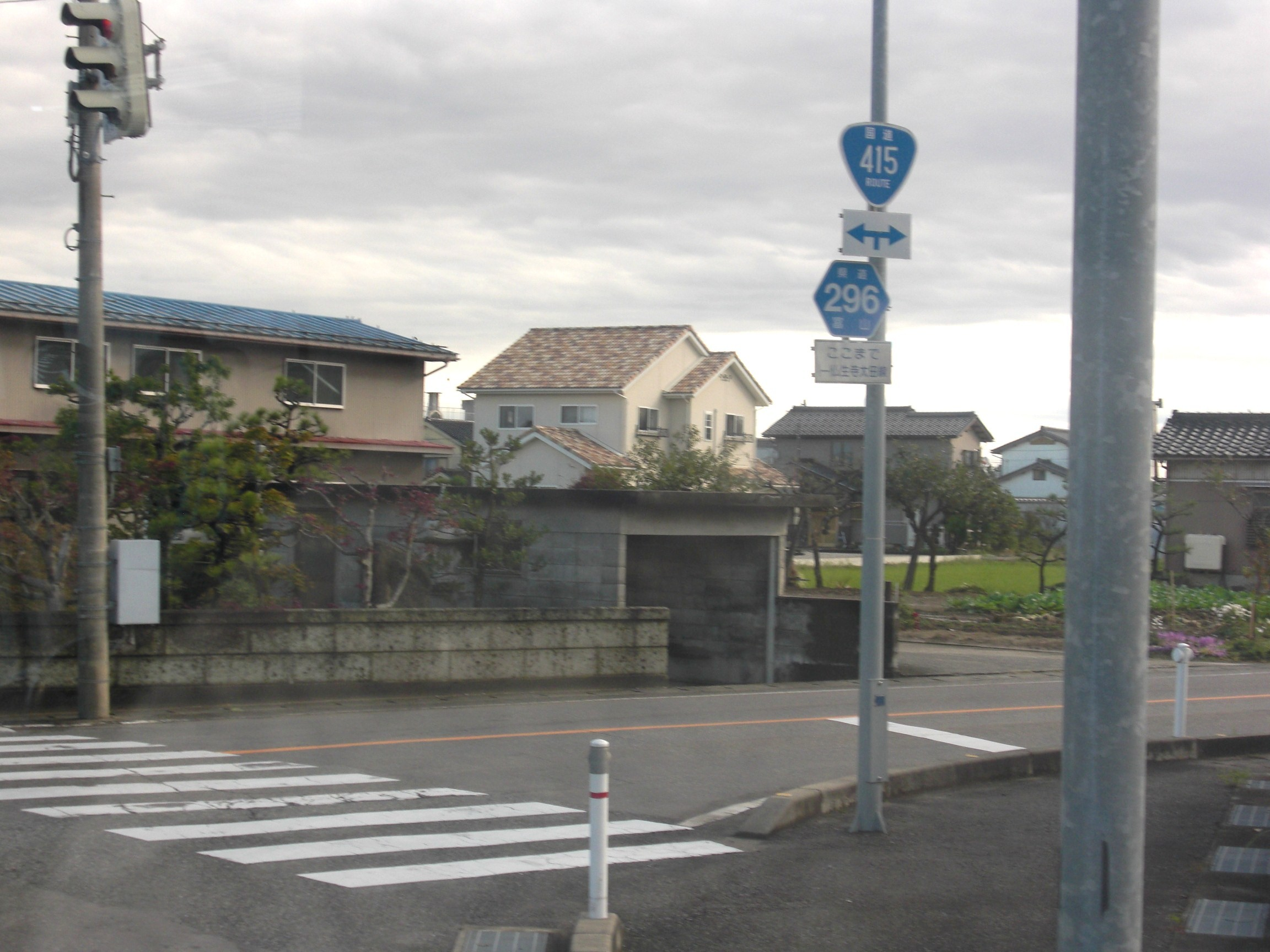 This is the end point of Toyama prefectural road No. 296 Busshoji-ohta Line.